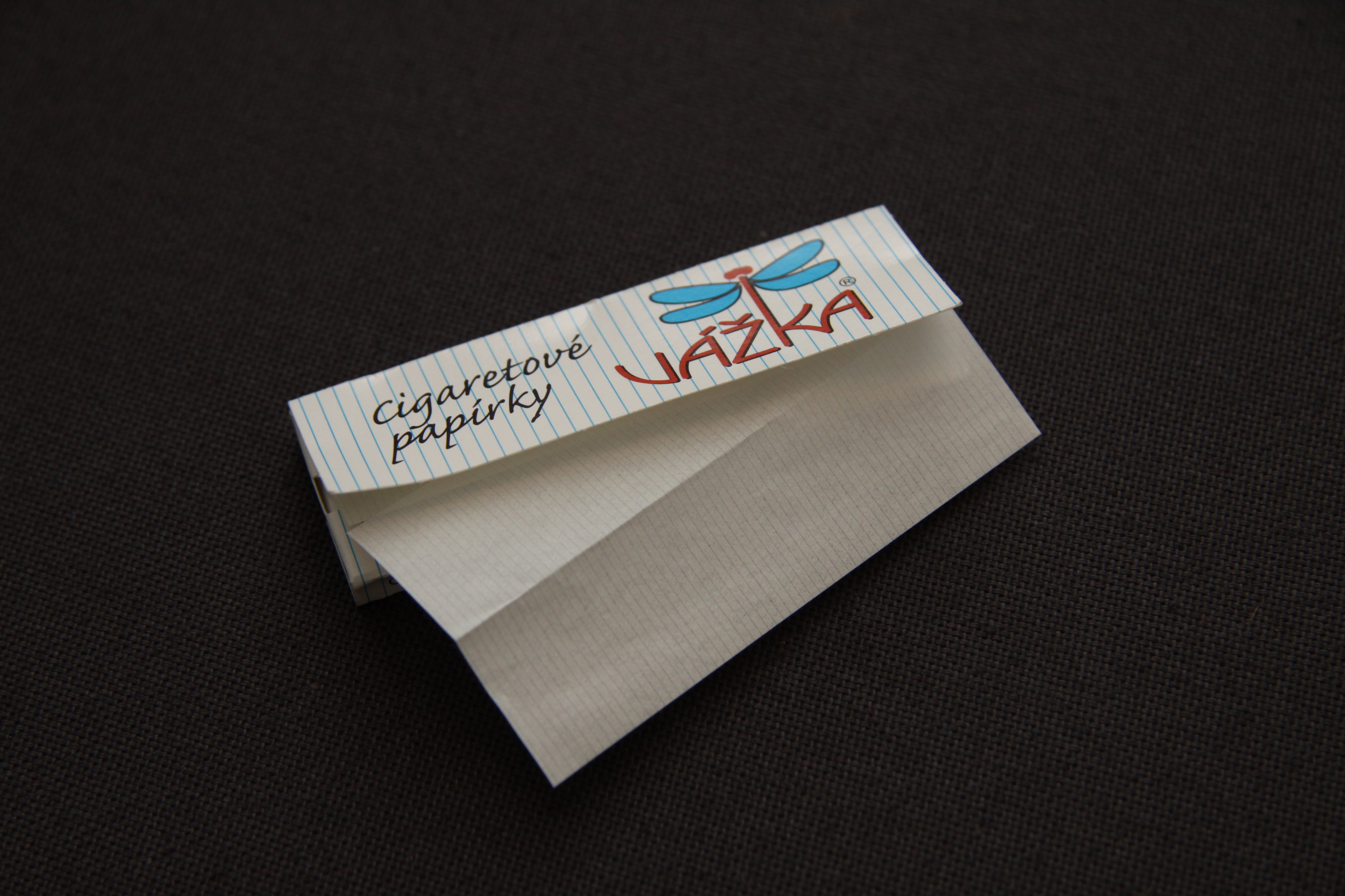 Cigarette rolling papers for cigarettes and joints